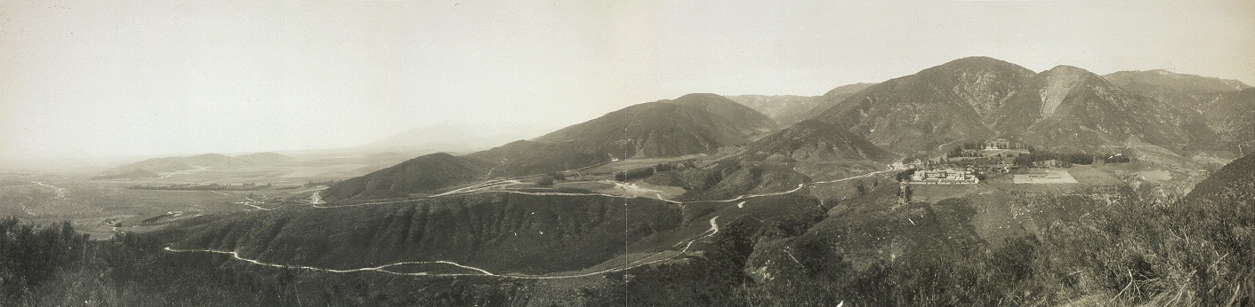 Panorama of Arrowhead Hot Springs, San Bernardino